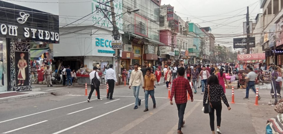 Karol Bagh Market - Revitalized 2019